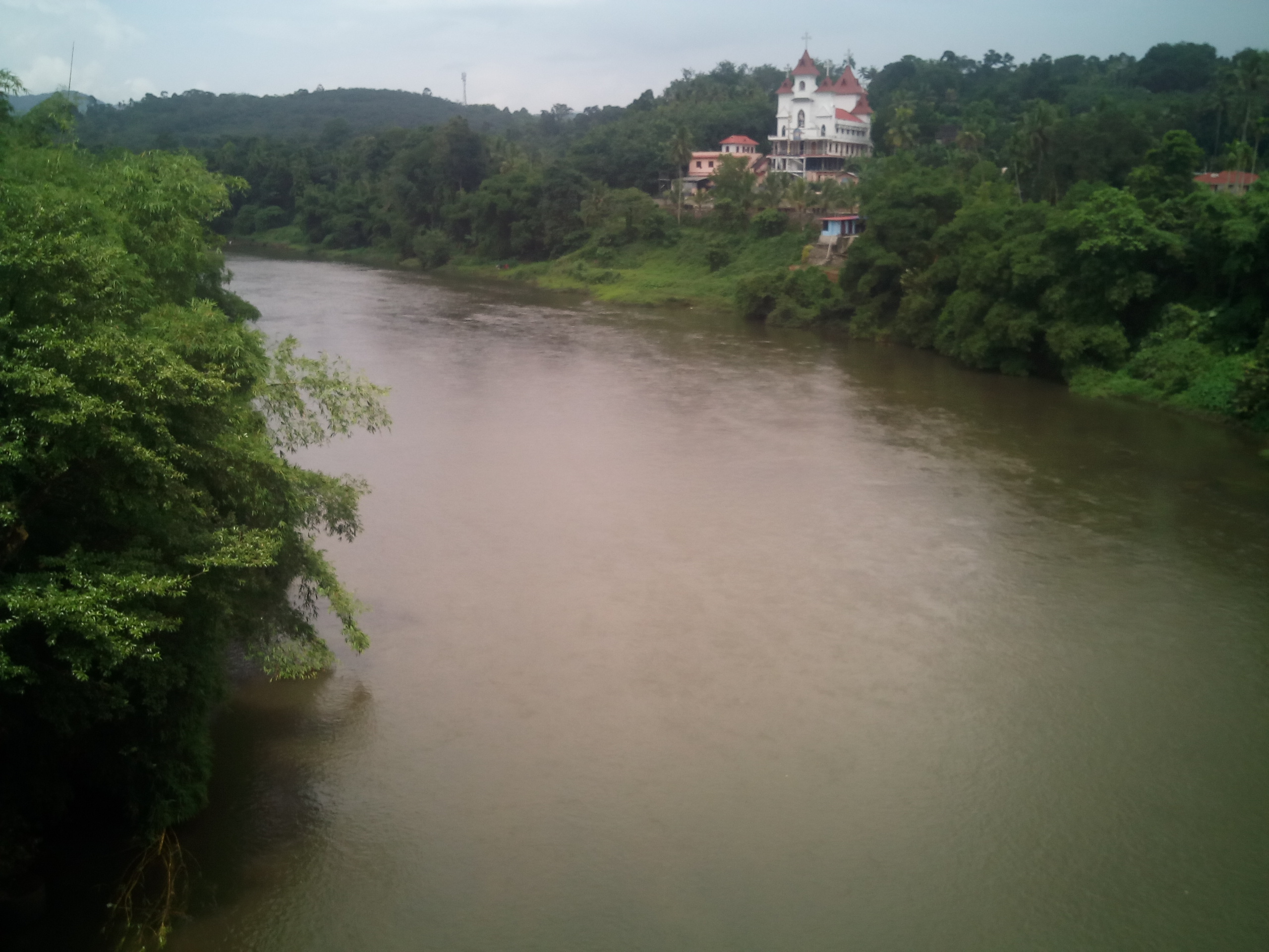 pamba river is one of the large rivers of kerala.